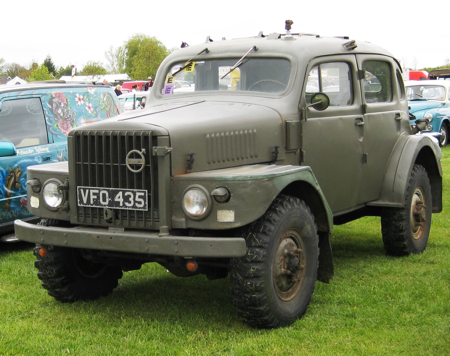 Volvo TP21 all-terrain military style vehicle